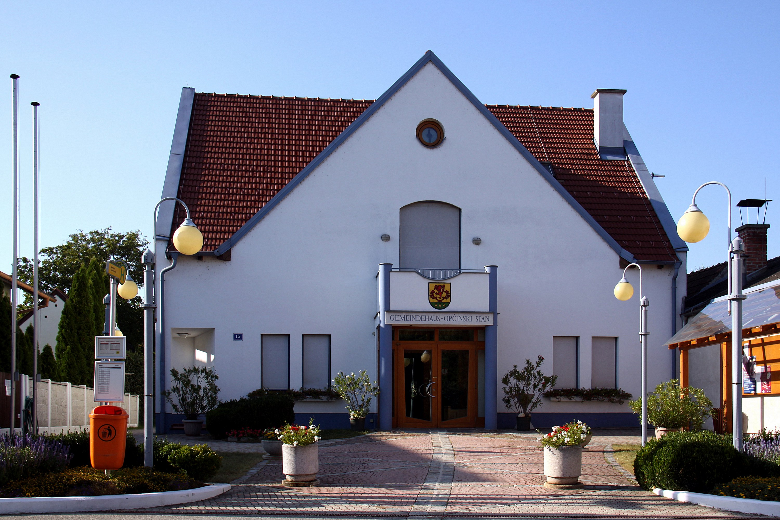 Municipal office - Zagersdorf Object location47° 45′ 56.98″ N, 16° 31′ 03.8″ E